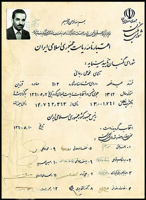 Presidential Credential of Mohammad Ali Rajaei, Iran's 2nd President